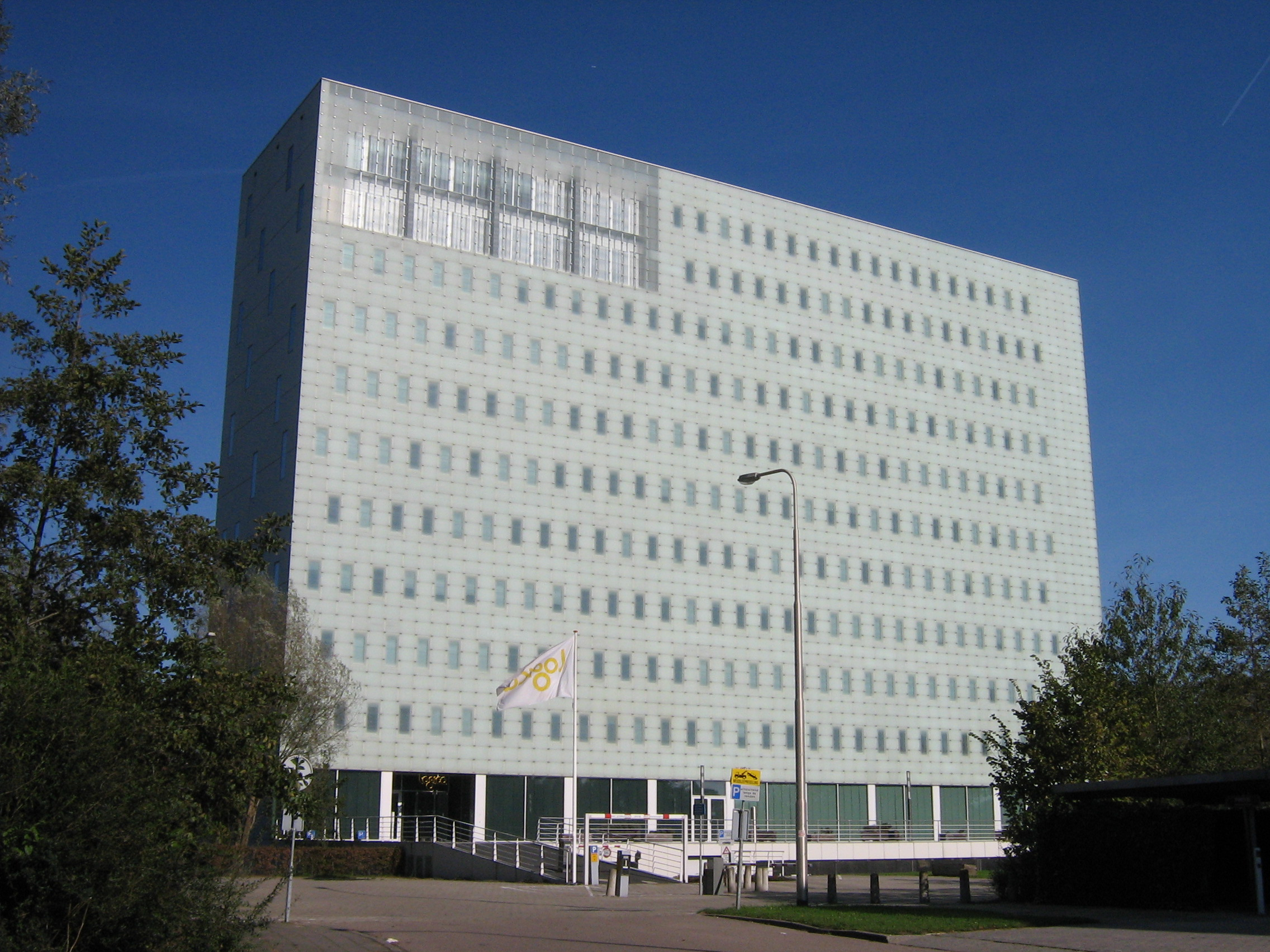 Dutch office of information technology services company Logica, at 14 Professor W.H. Keesomlaan, Amstelveen, the Netherlands, seen from the south.